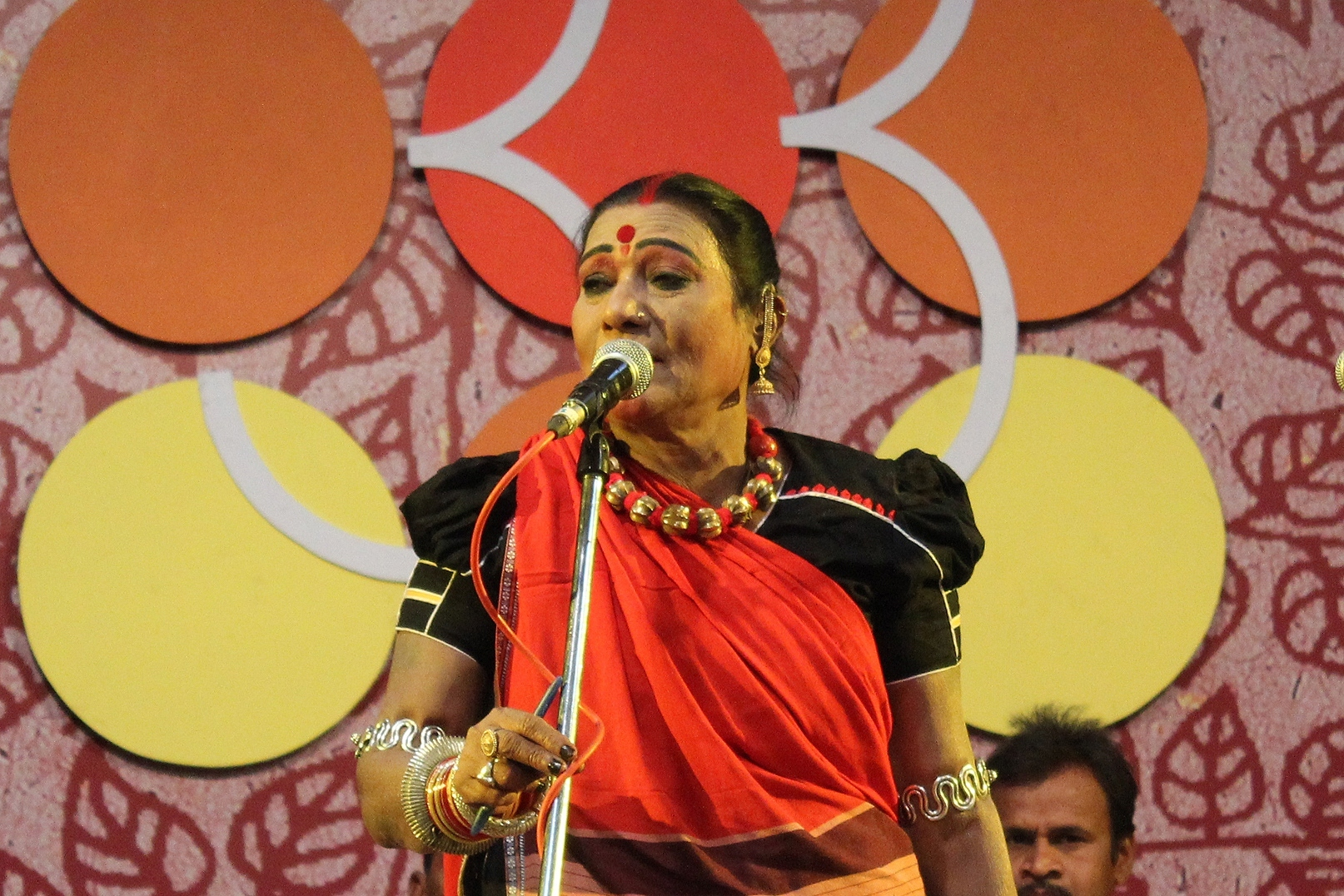 Teejan Bai performing at Bharat Bhawan Bhopal